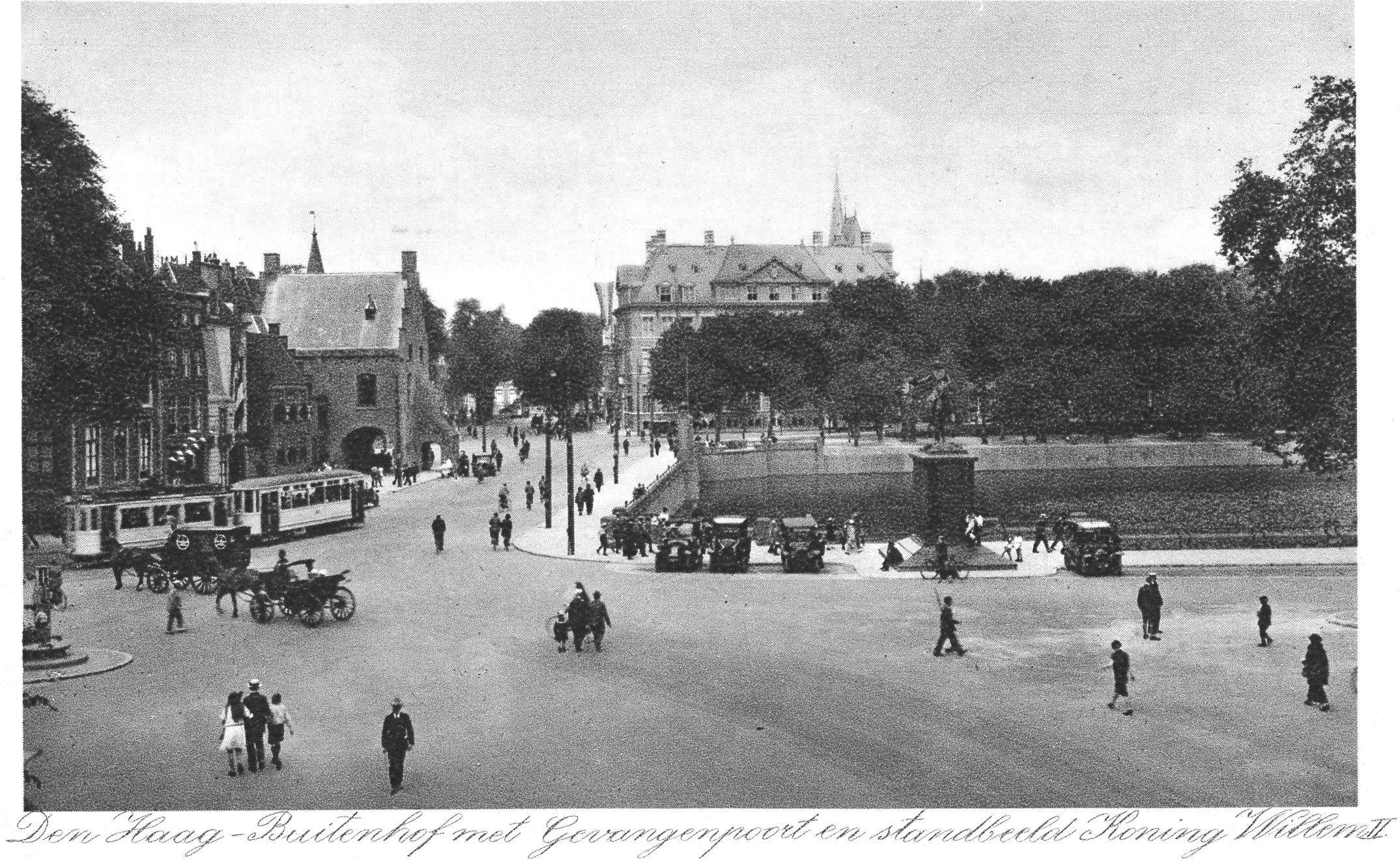 Classic view of The Hague Buitenhof in the 1920s. Little is changed except the trams, the people and taxis.